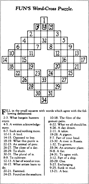 Recreation of the first crossword puzzle, created by Arthur Wynne, published in the New York World on December 21, 1913. Difference of the image to the original crossword puzzle according the Sanasepot is different font and spelling fixes in labels 4–5 and 9–25. [1]